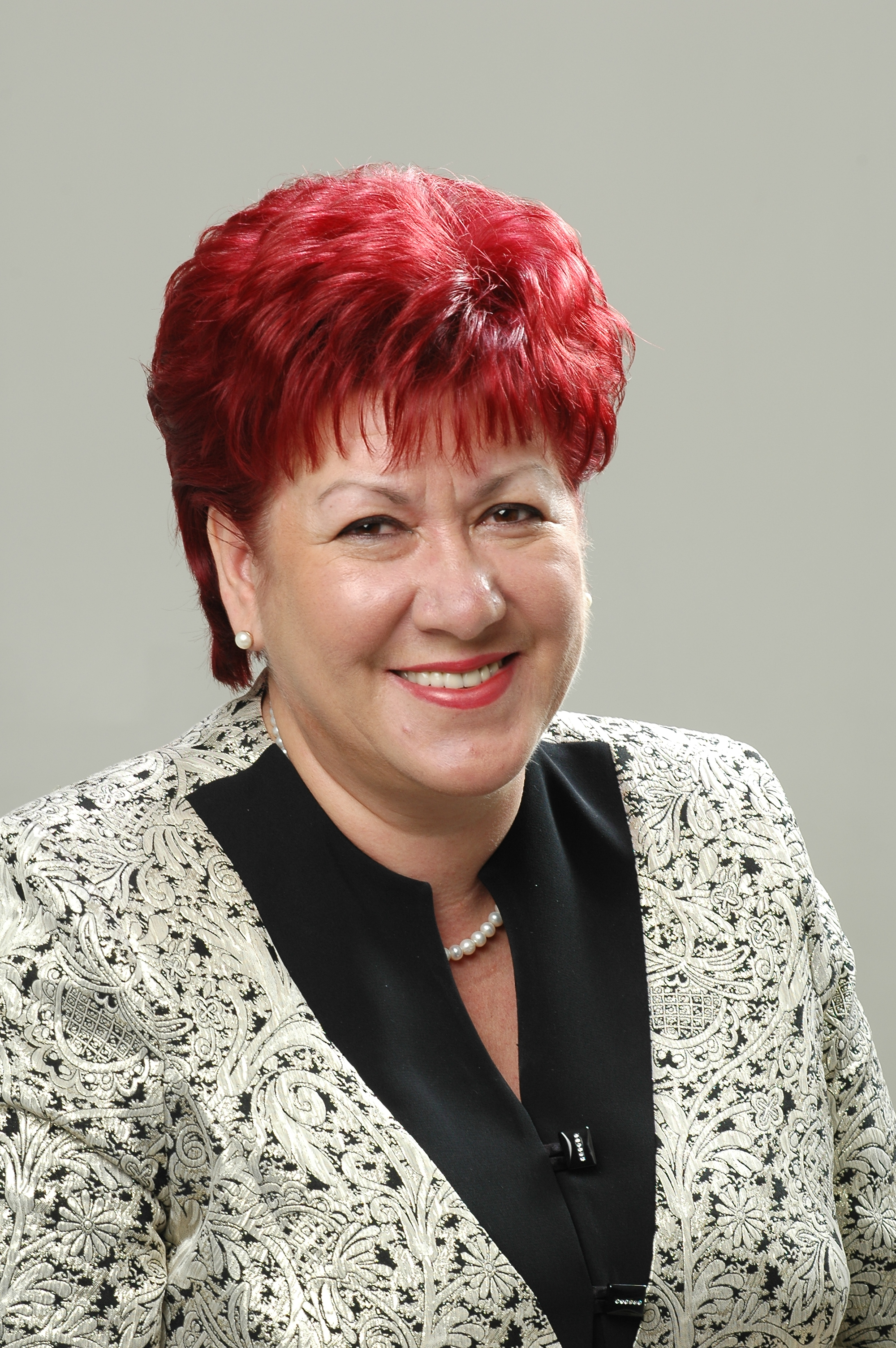 Deputy of the 9th Saeima Dagnija Staķe